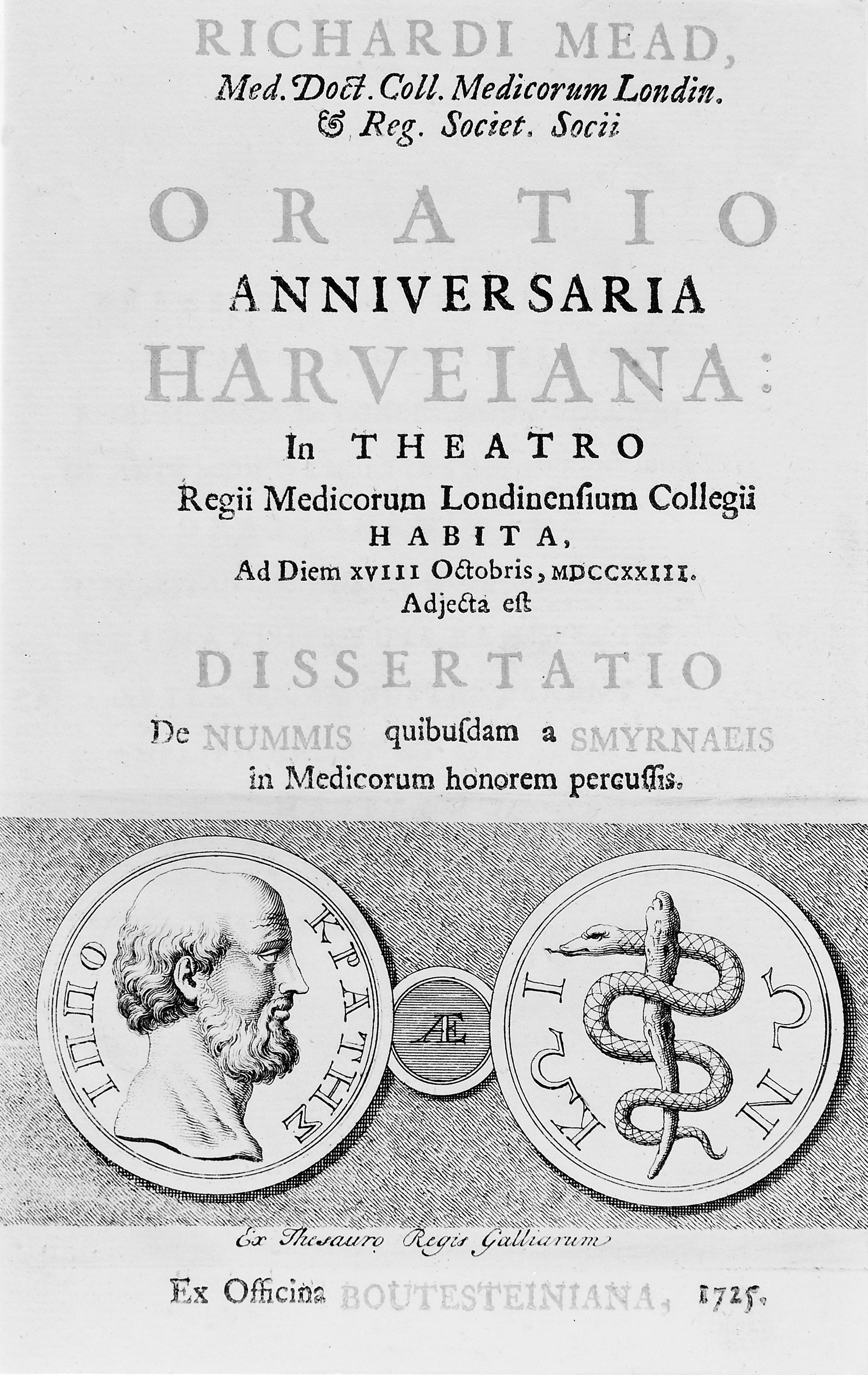 The Harveian Oration for 1723, delivered in 18 October 1723, published 1725. Wellcome Images Keywords: Richard Mead